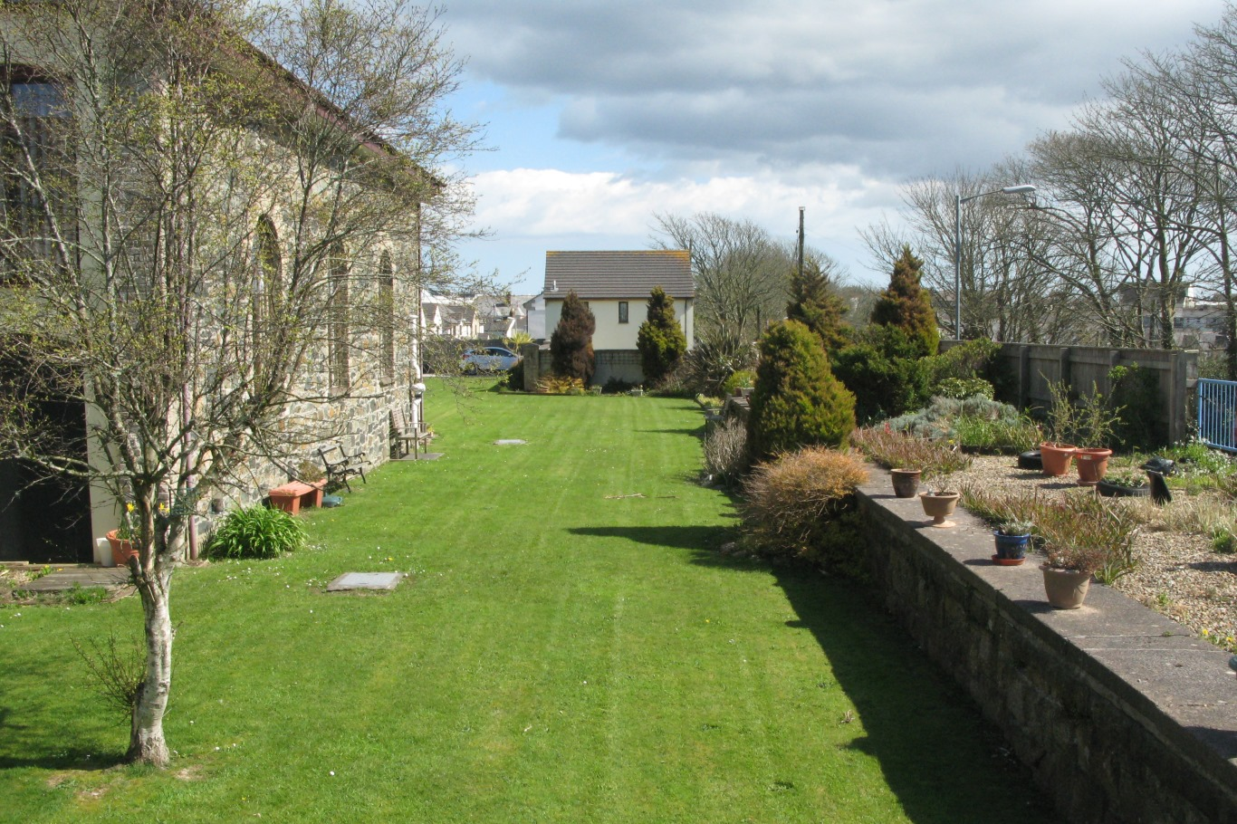 The remains of Helston railway station, the terminus of the branch from Gwinear Road which lost its passenger service in 1962. This is looking towards the end of the line with the former goods shed on the left and platform on the right.